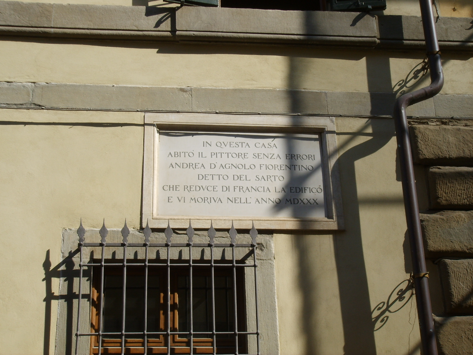 Andrea del Sarto house in Florence